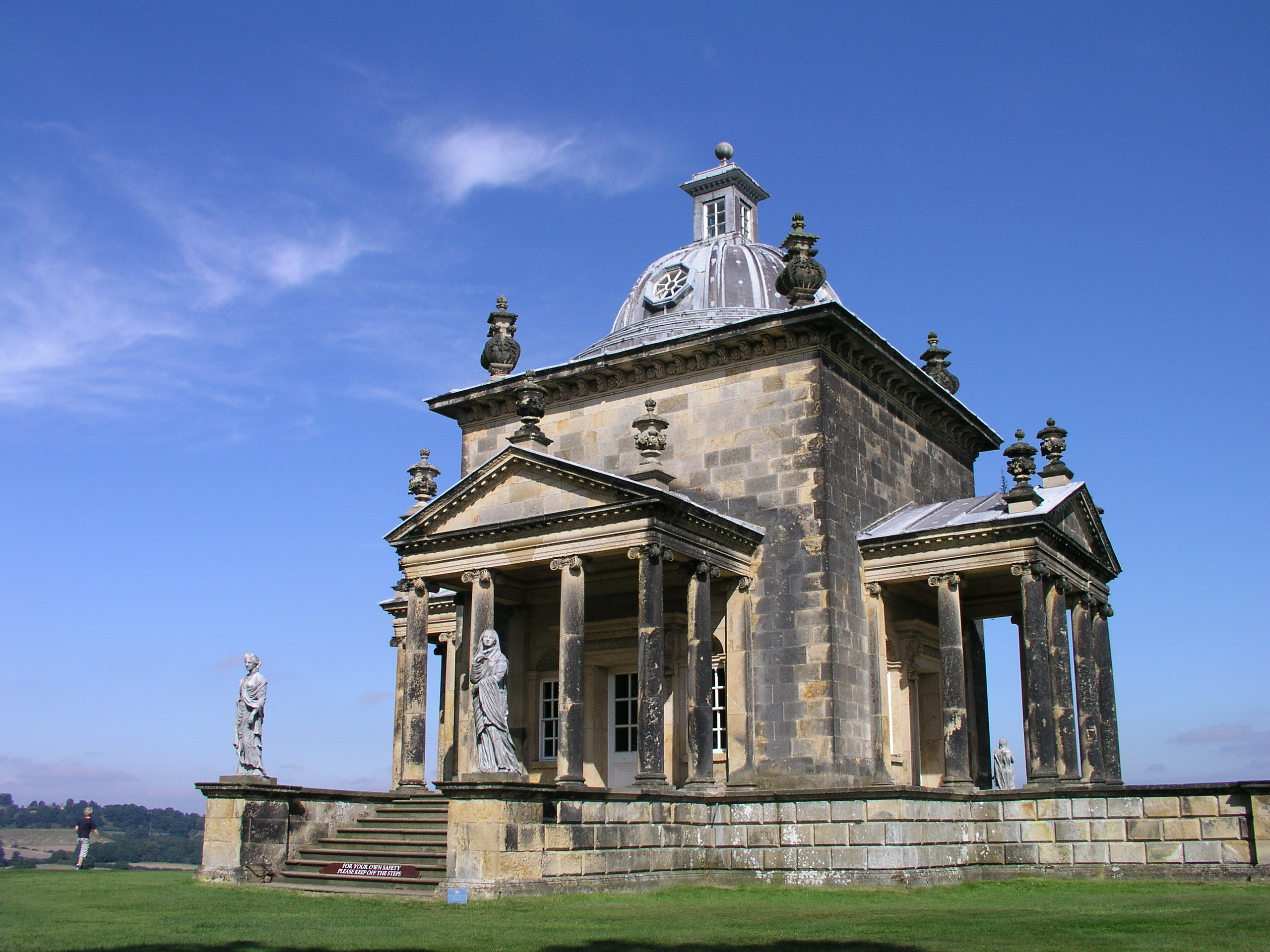 The Temple of Four Winds in the Grounds of Castle Howard, near York.